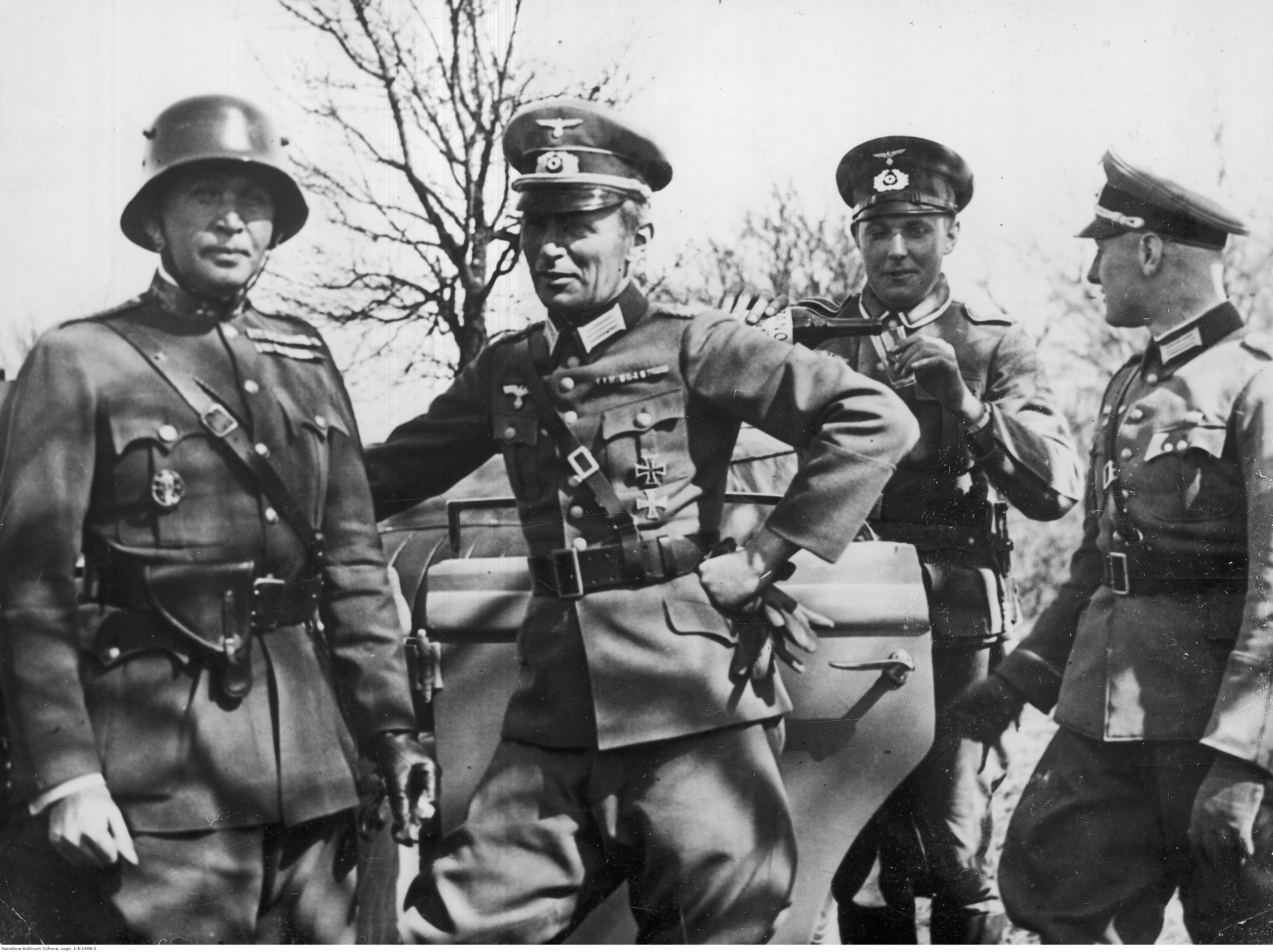 Meeting of German and Hungarian officers. Visible Cpt. Veniezey (1st left) and Edwin von Rothkirch und Trach (2nd from the left).